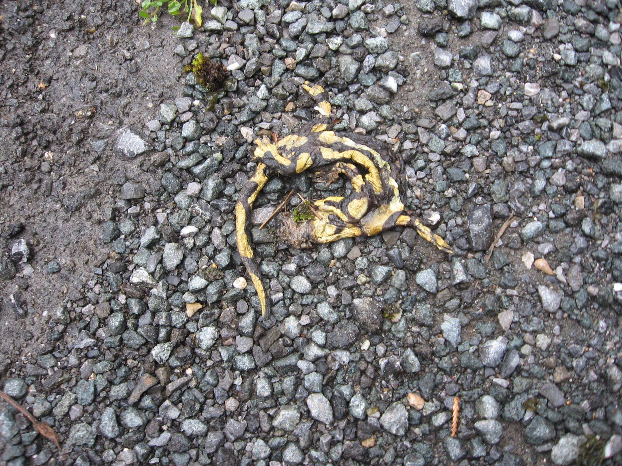 Fire salamander (Salamandra salamandra) roadkill on a Forestway at Sundern, Germany.